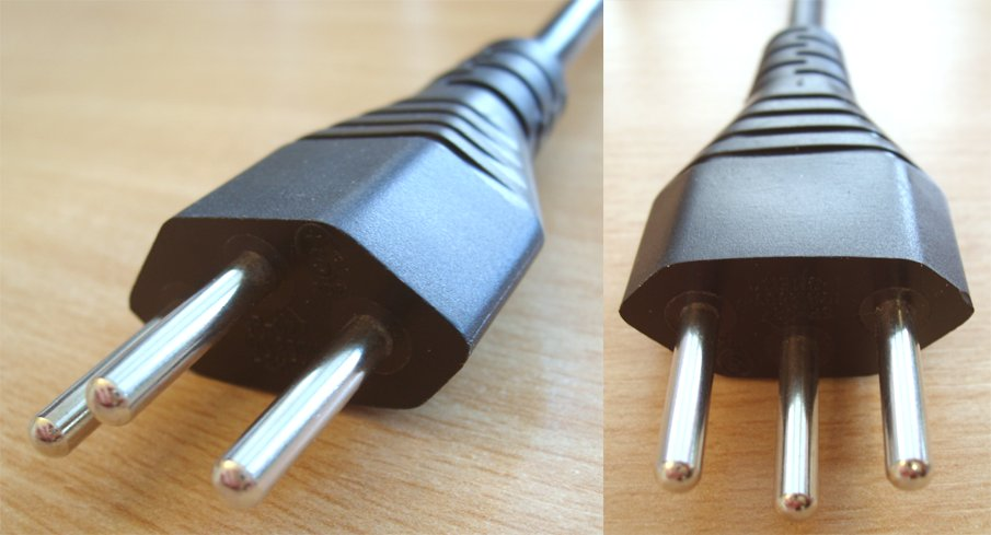 AC Power Plug Type J (Switzerland, SEV 1011 Type 13, max. 10 A)